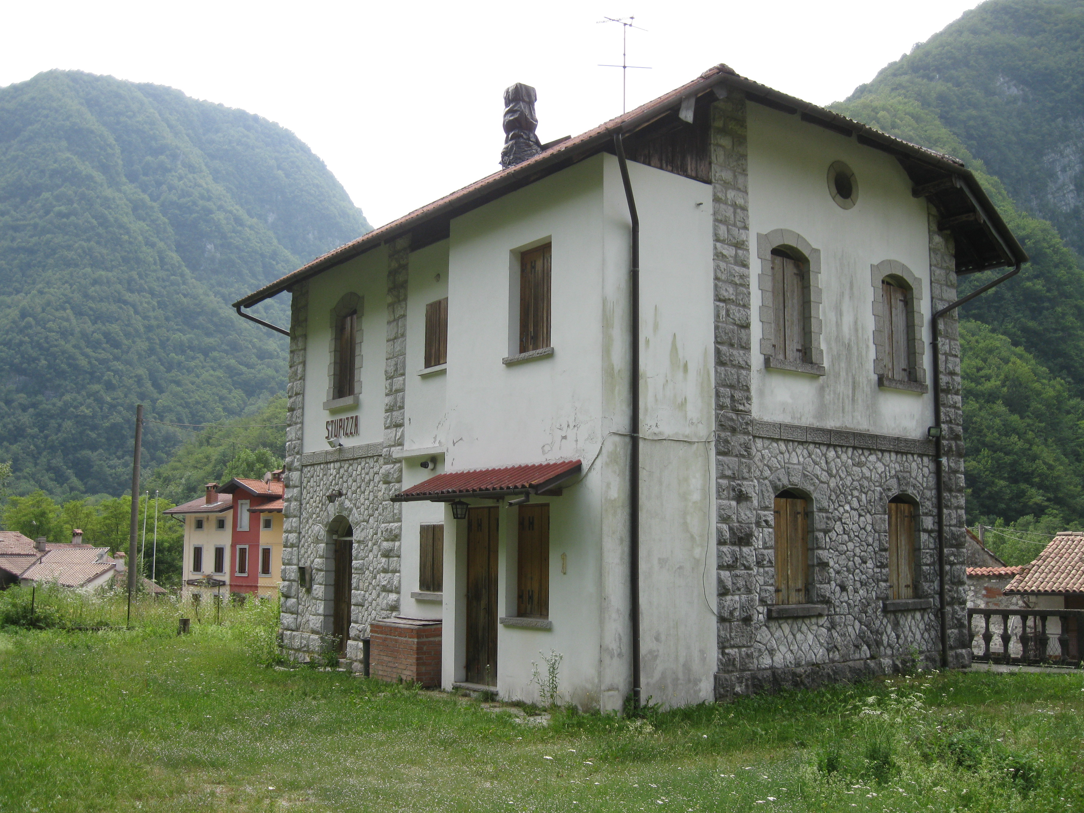 Disused train station in Stupizza, Italy